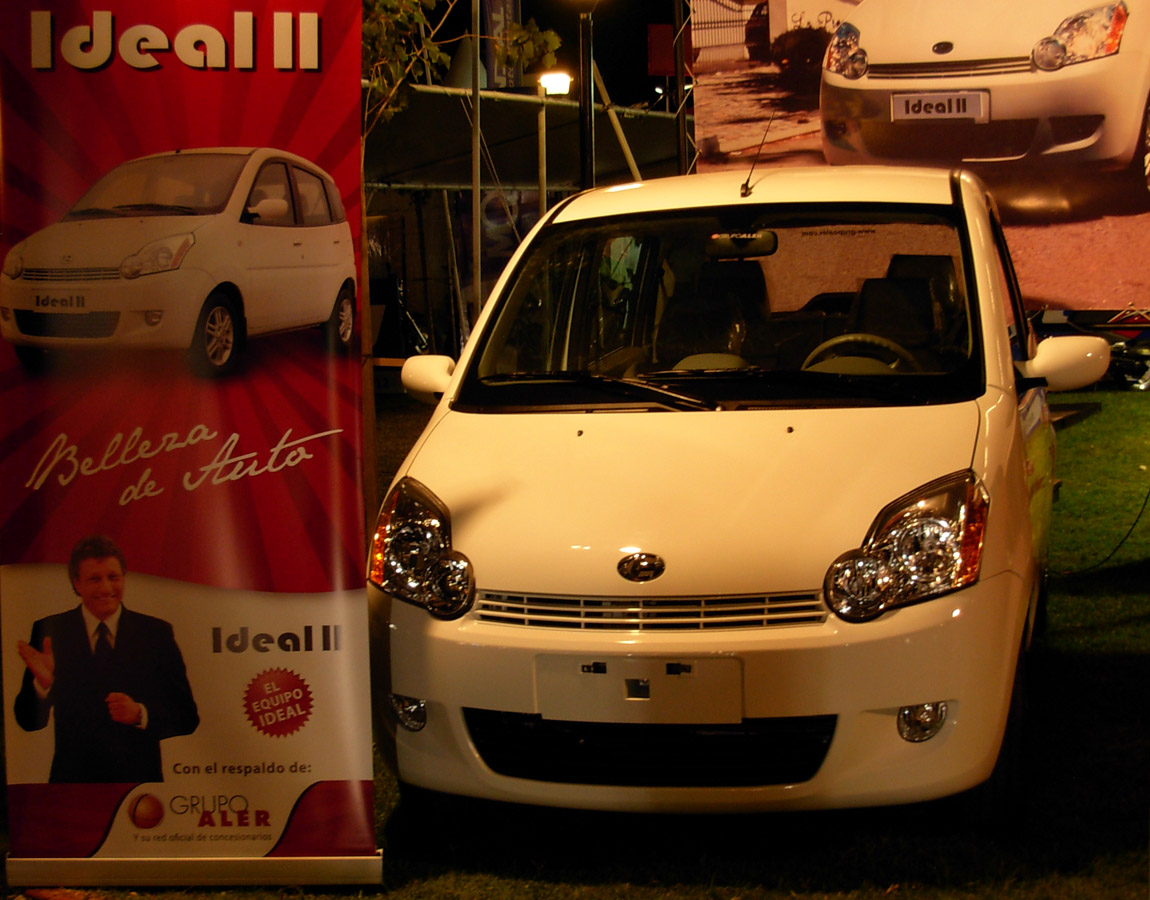 Effa Ideal II at the 2012 Montevideo Motor Show.